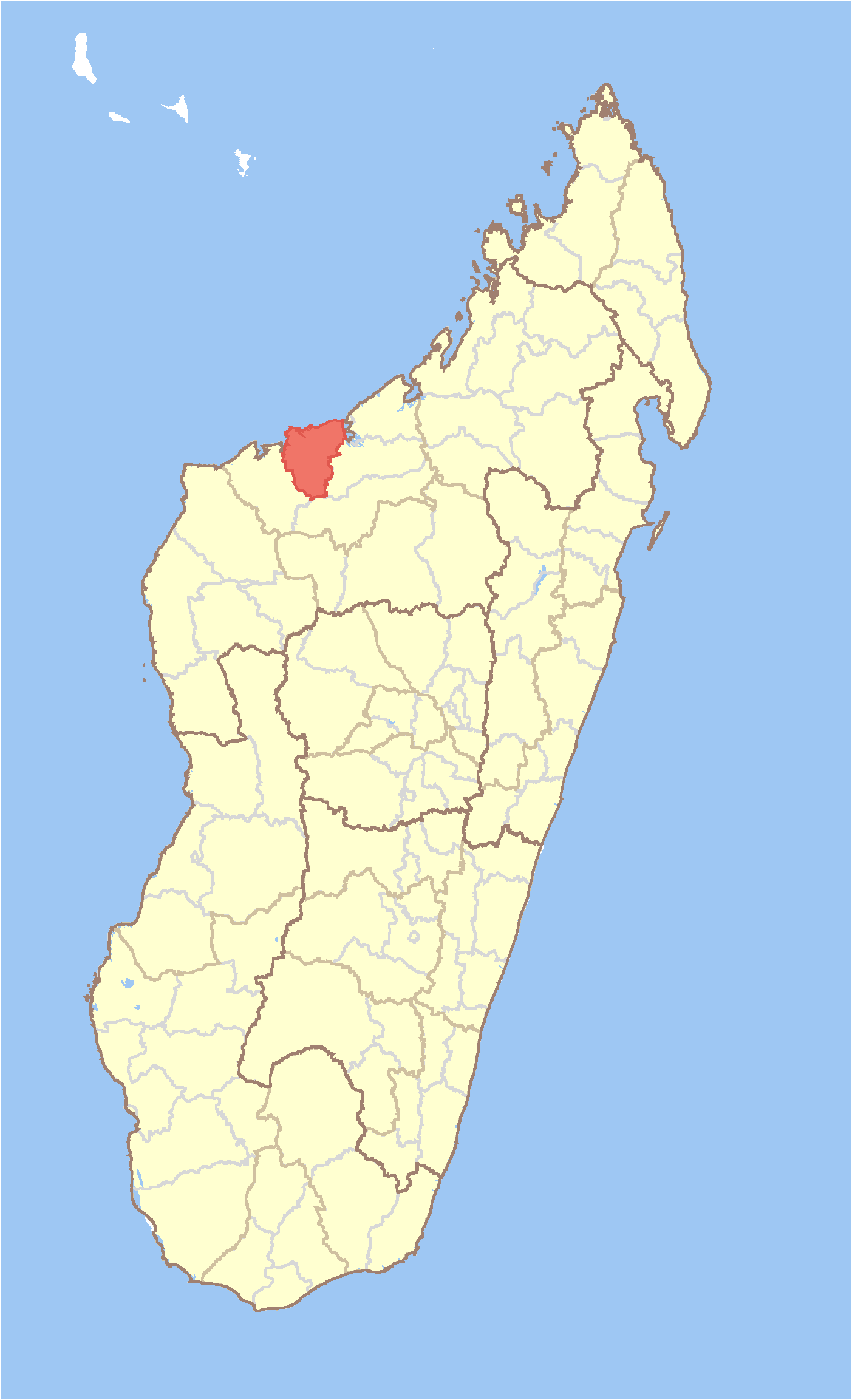 Map of Madagascar with Mitsinjo District highlighted